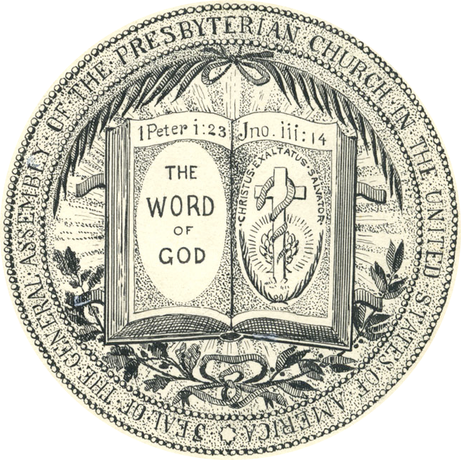 Seal of the Presbyterian Church in the United States of America